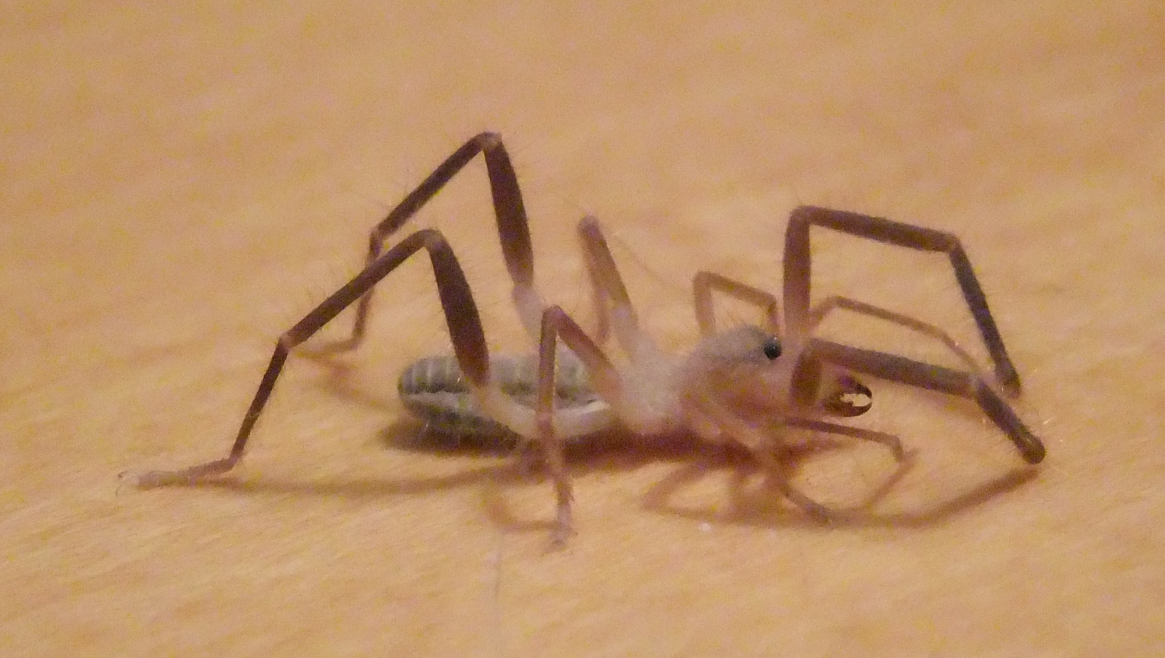 Galeodes, Wildlife and Plants of Israel